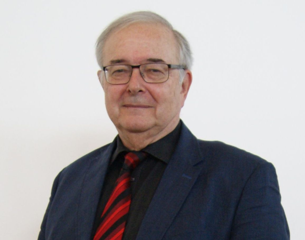 Herbert Boesch, Photo taken on the occasion of the event on April 6, 2019 in Friedrichshafen the Socialist Bodensee-International (SBI) in the Graf Zeppelin House.